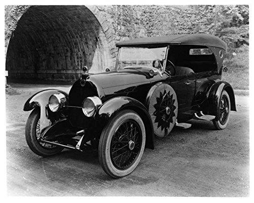 A factory illustration of a Richelieu T-85 Sports Touring with some extras. Richelieus were built with 340,5 c.i. Rochester-Duesenberg G-1 "Walking Beam" four cylinder engines delivering 81 bhp. Most got coachwork by Fleetwood. This car has the grille shell painted in the body color, Houk wire wheels with spares in custom covers, special top with round windows, and step plates.